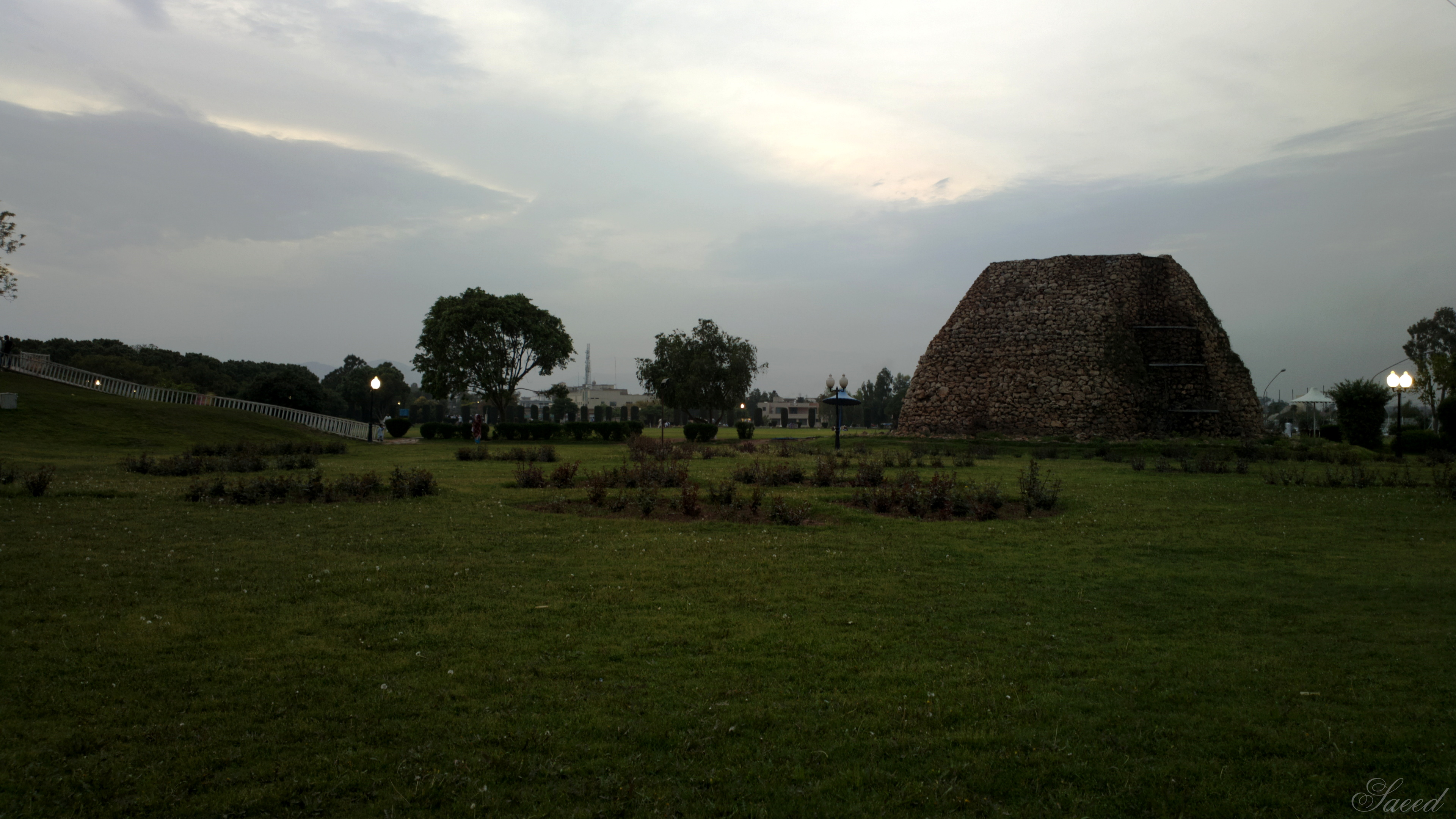 Hayatabad